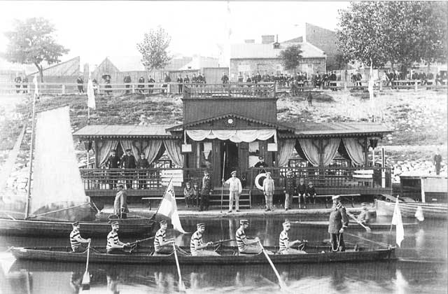 Non-existent harbor on Vistula river in Włocławek. Photograph made by Bolesław Sztejner (1861-1921) at least of XIX century.